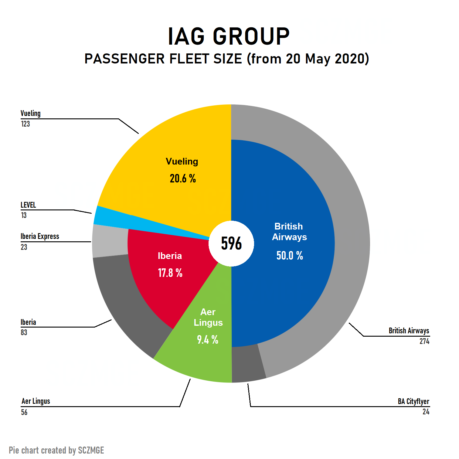 International Airlines Group passenger fleet size (including subsidiaries but excluding cargo) - Valid from 20 May 2020. Data retrieved from on 19 May 2020